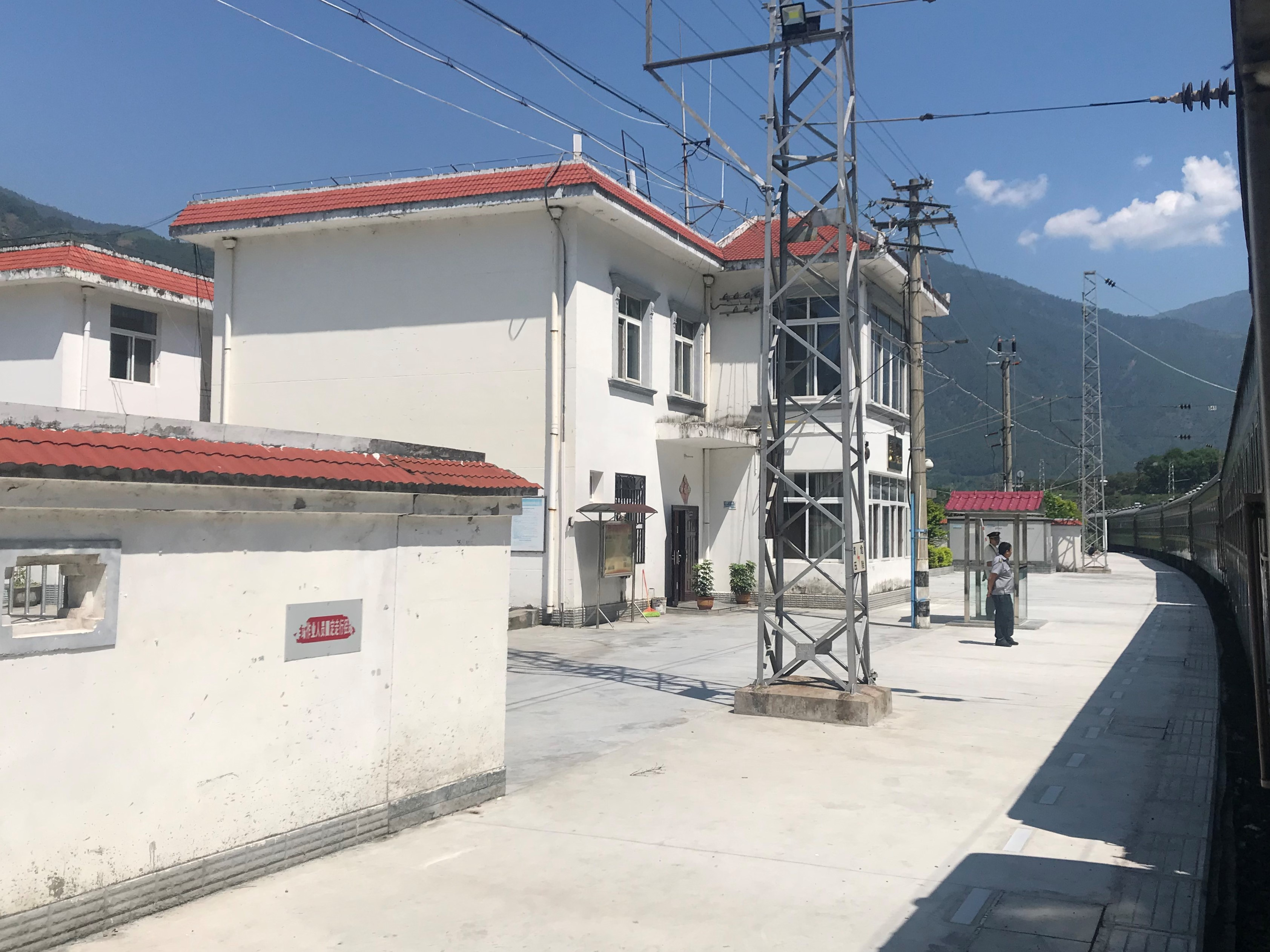 201908 Station Building of Puba